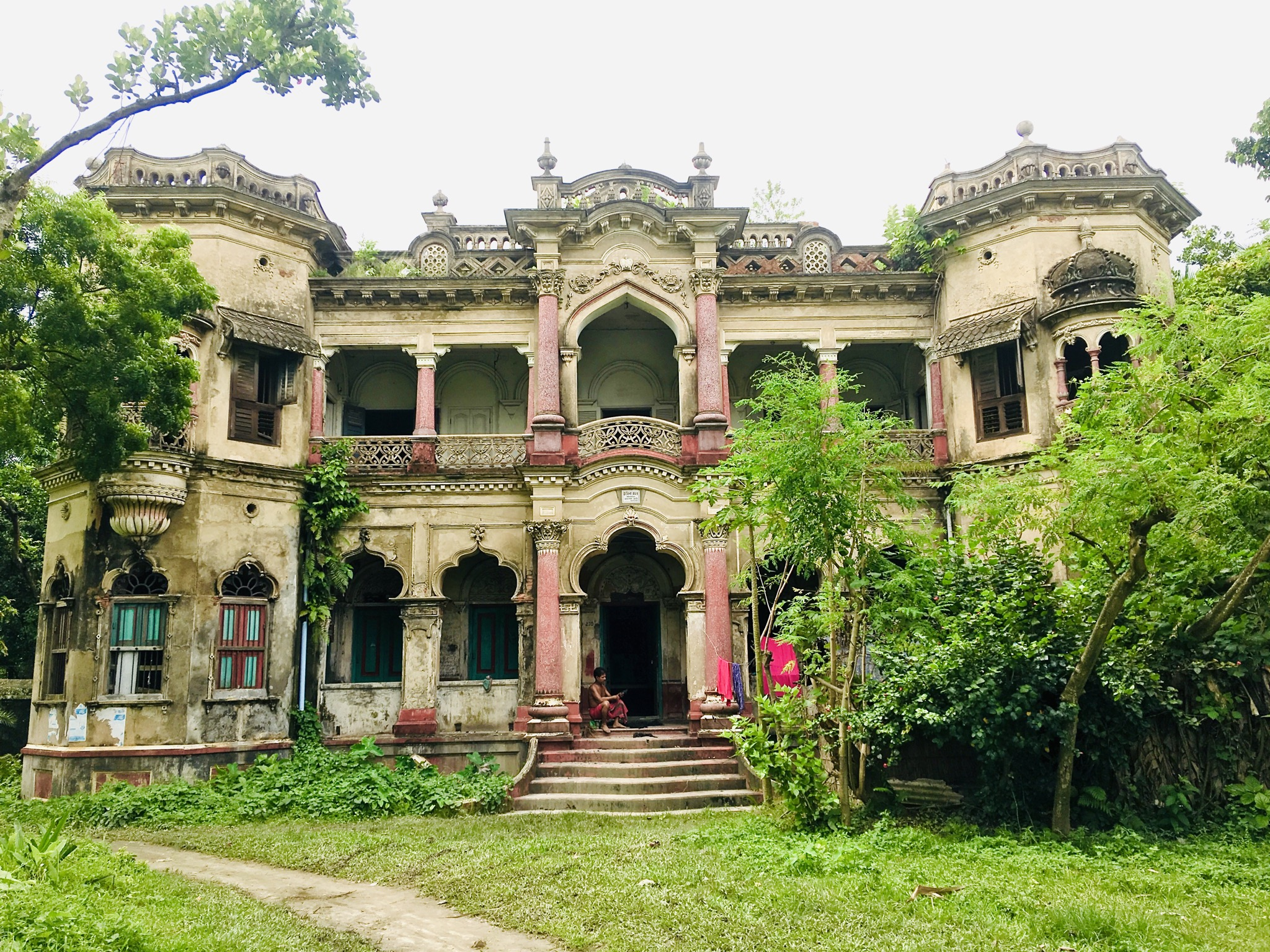 Lokkhon Saha jomidar bari